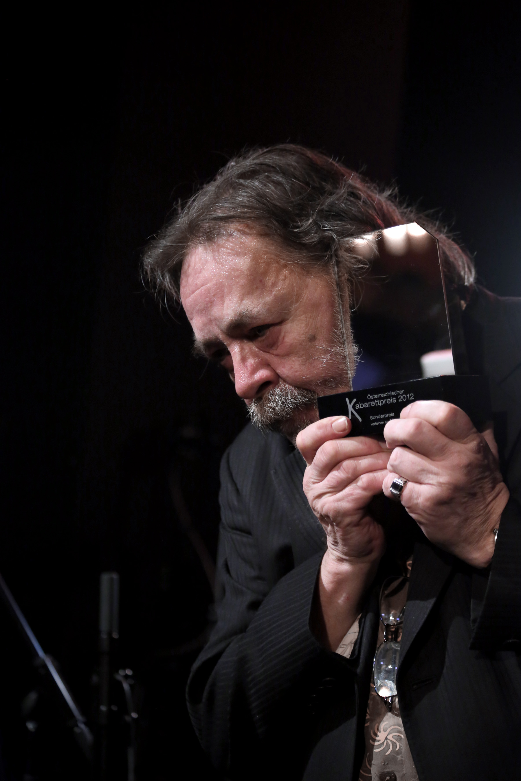 Austrian Cabaret Award 2012 (Porgy & Bess, Vienna).